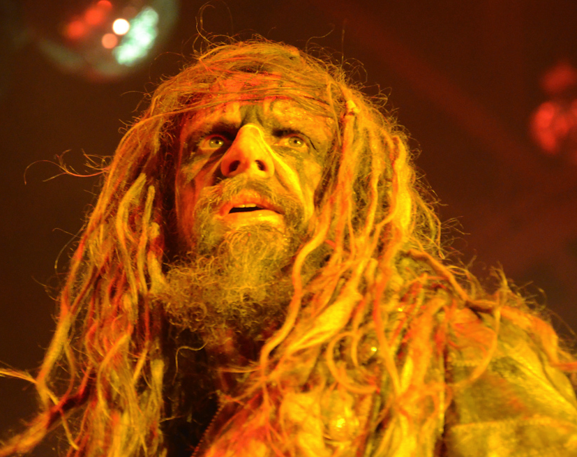 Rob Zombie Performing in 2011 with Slayer for the "Hell on Earth" tour.